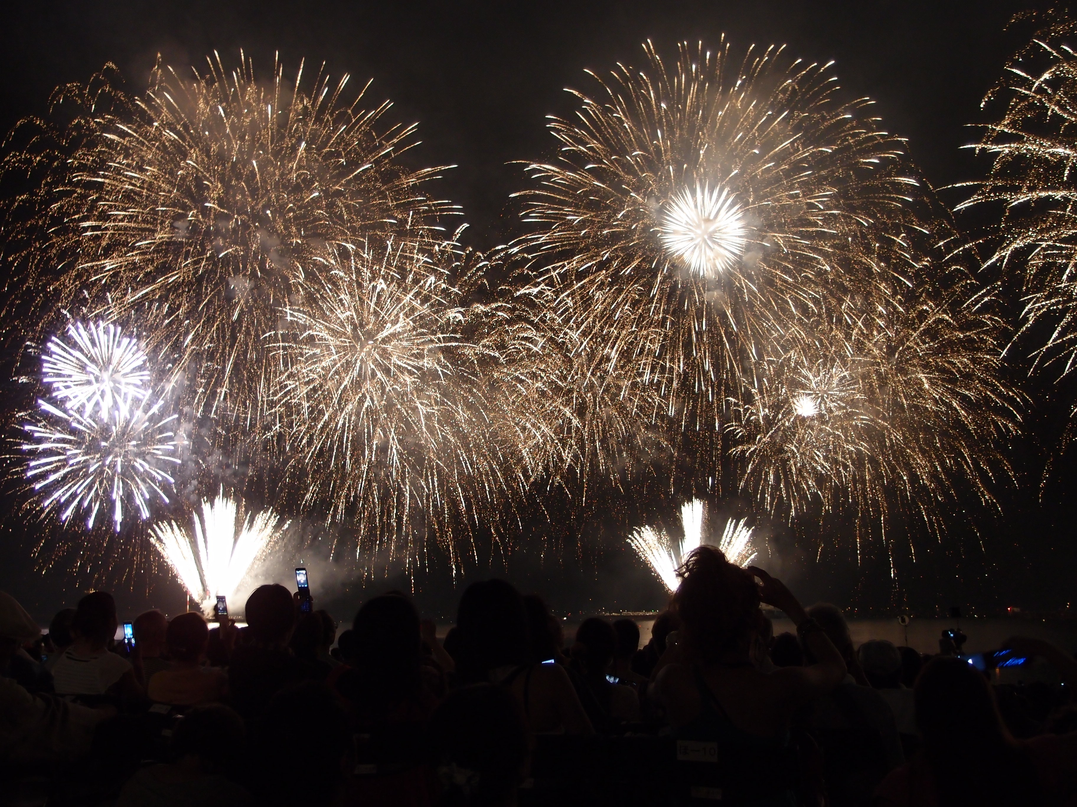 "Floating Lanterns and Fireworks Show" :Fukui Prefecture Tsuruga City, August 16th. 6000 lanterns are floated down the Matsubara Coast. At the same time, 13,000 fireworks are displayed.